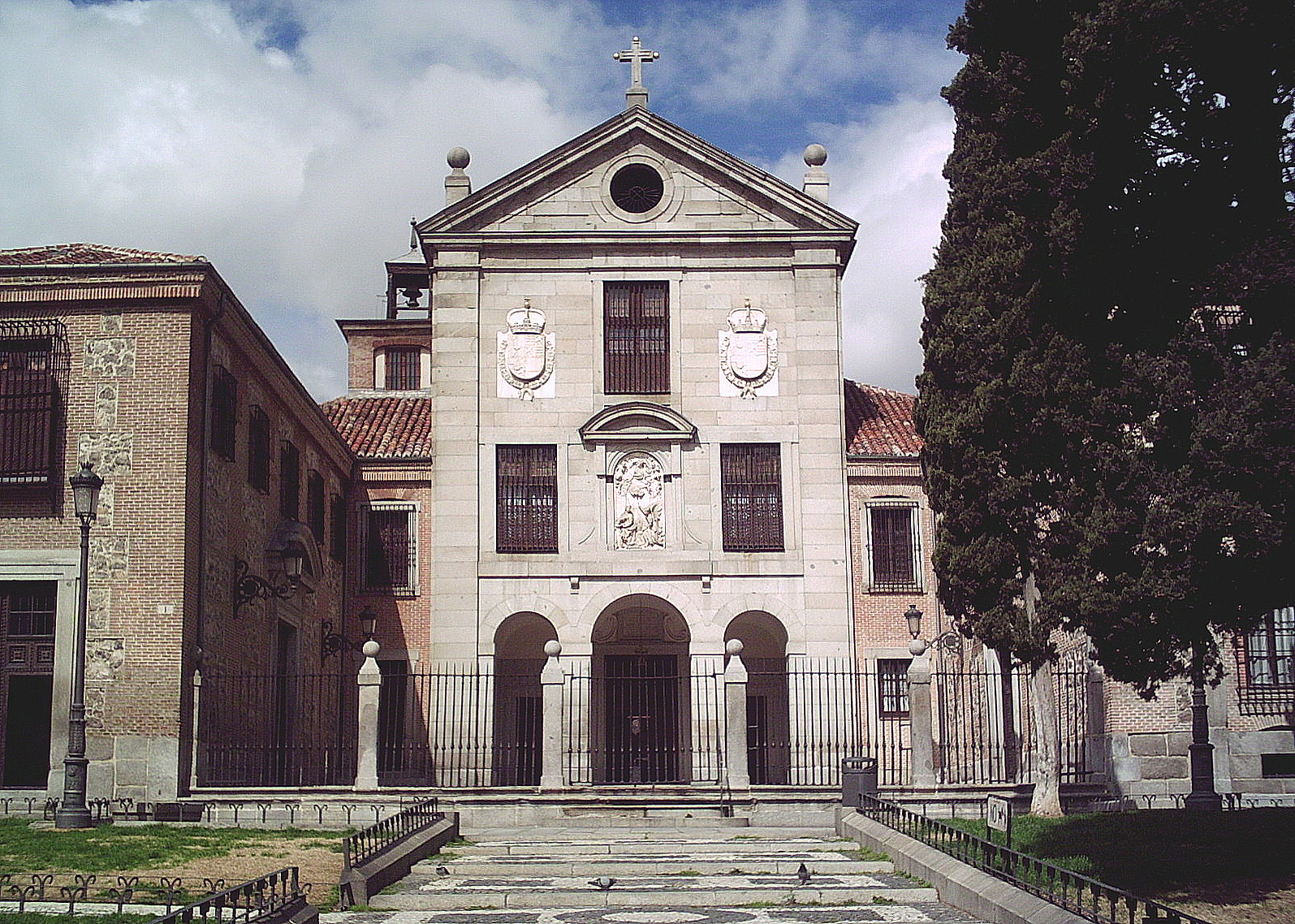 Royal monastery of La Encarnación (Madrid, Spain, 1611–1616). Architects: Juan Gómez de Mora (1586–c.1648) and Alberto de la Madre de Dios (1575–1635). Alteration of the church by Ventura Rodríguez (1717–1785) between 1755 and 1767.